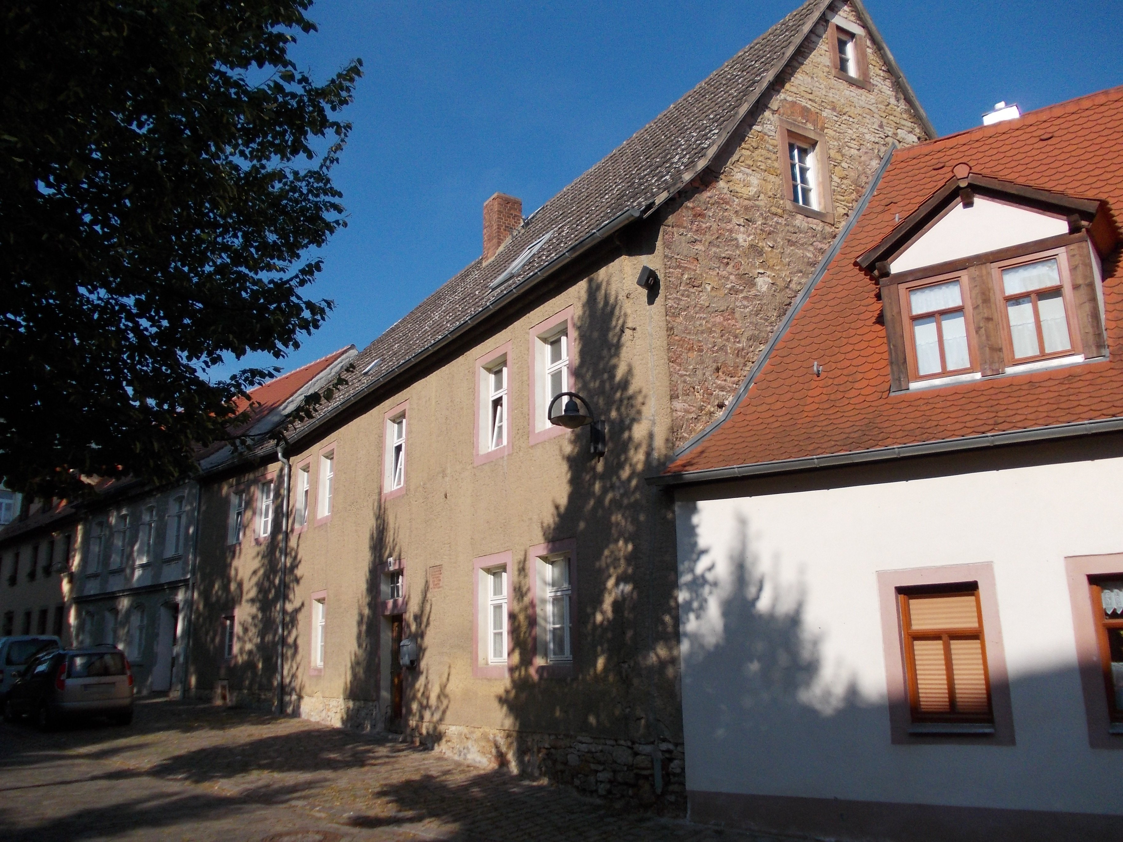 Birthplace of Jacob Christian Schäffer at Kirchplan in Querfurt (district of Saalekreis, Saxony-Anhalt)